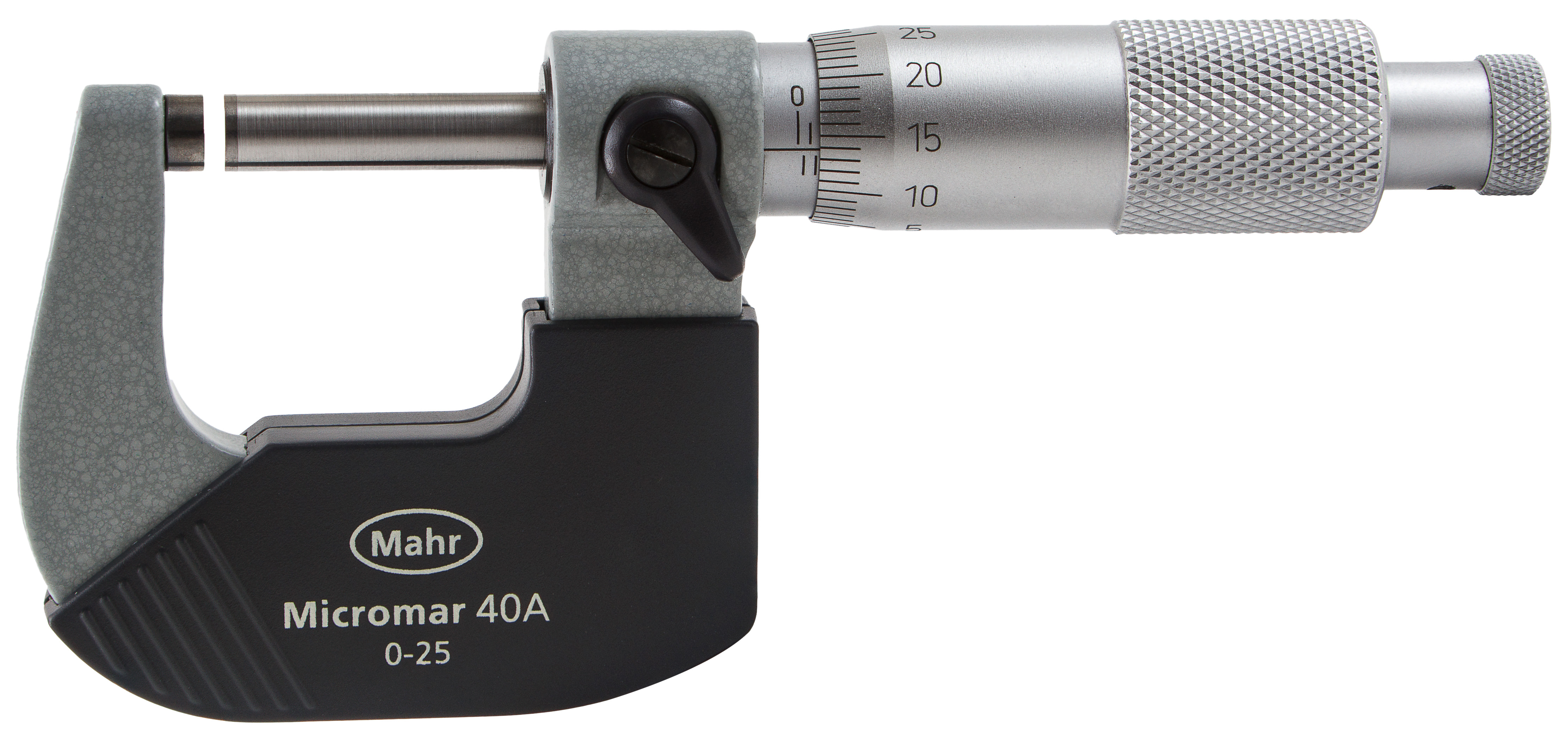 Micrometer made by Mahr, 0 to 25mm